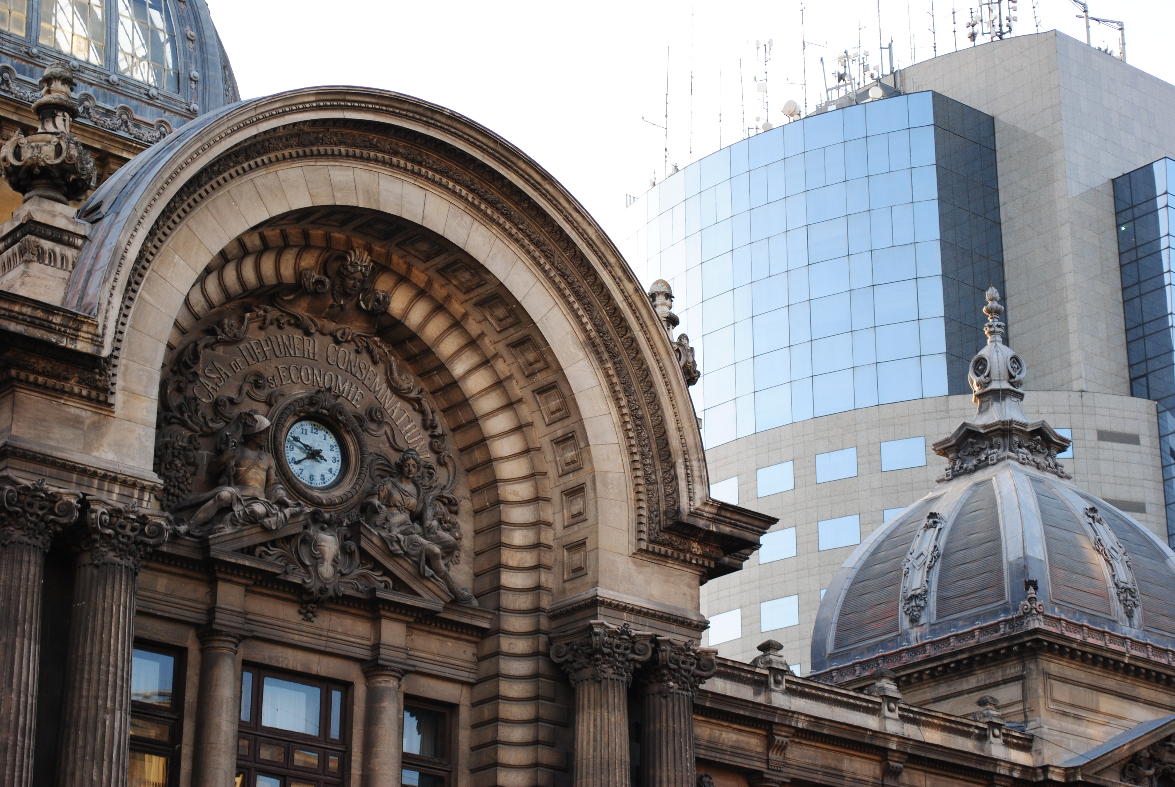 Bucharest's Architecture: Old CEC Palace in front of Bucharest Financial Plaza.